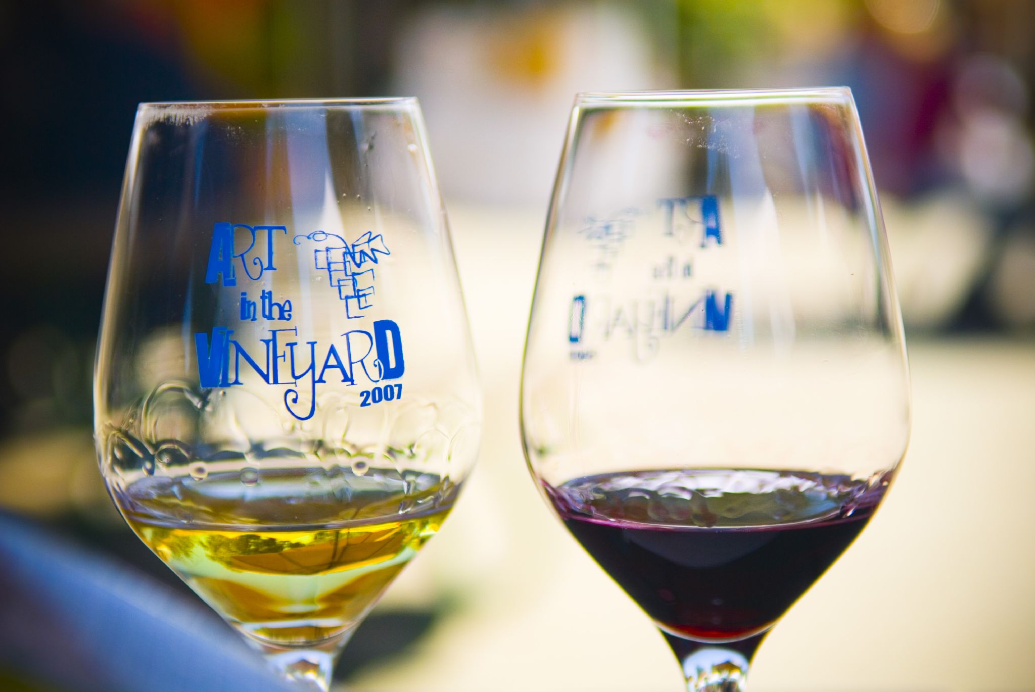 Image of two California wines.